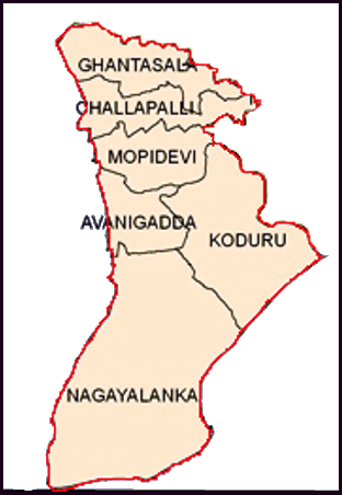 Mandals in Avanigadda assembly constituency. I derived this image from a pic from government source.